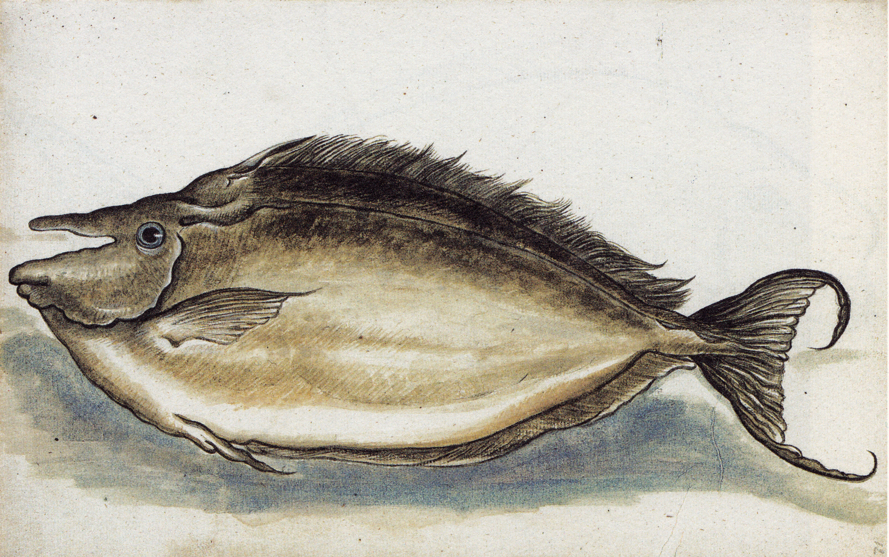 Humpback unicornfish (Naso brachycentron).